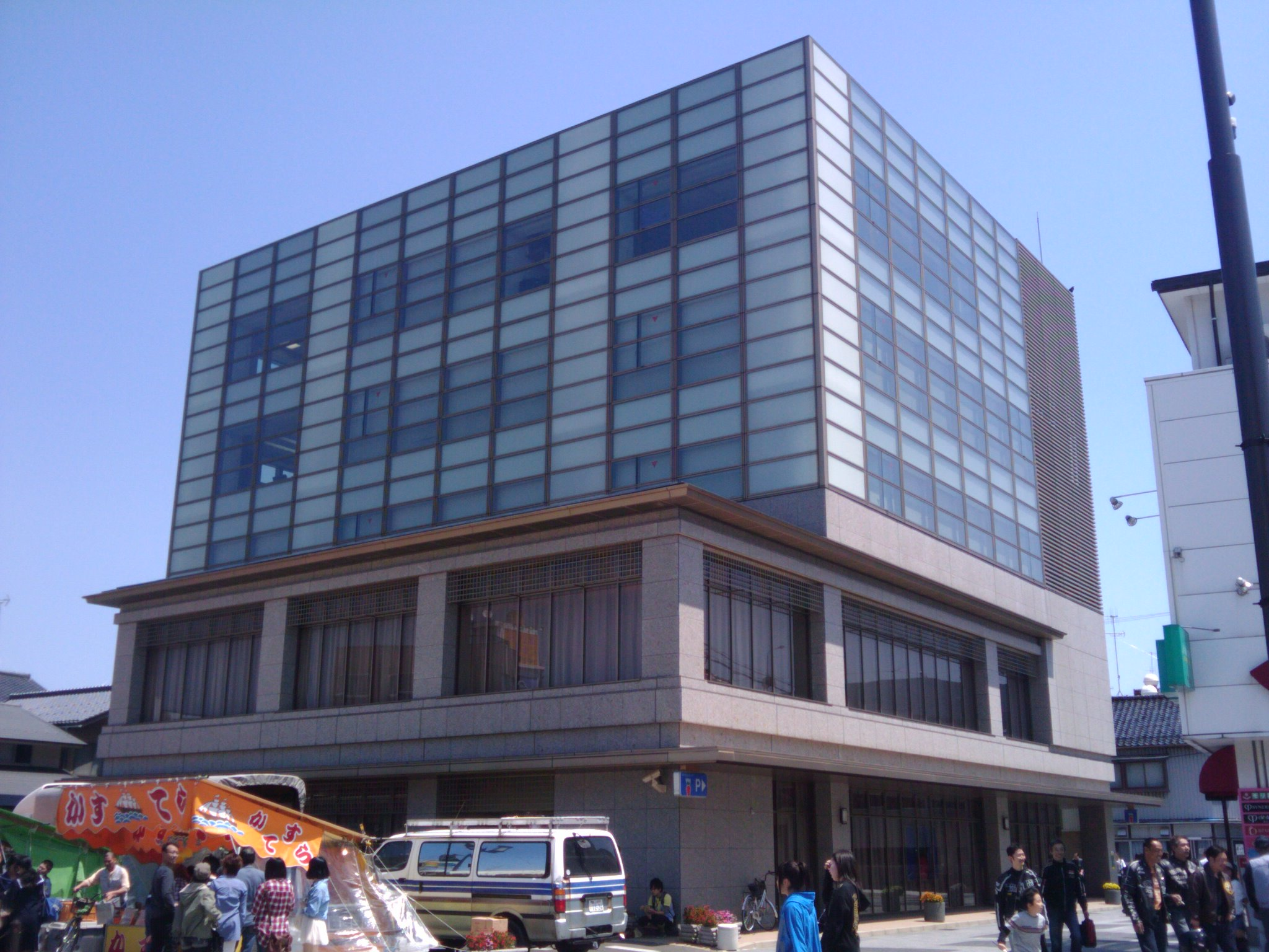 Notokyouei Shinyoukinko (Nanao, Ishikawa, Japan)